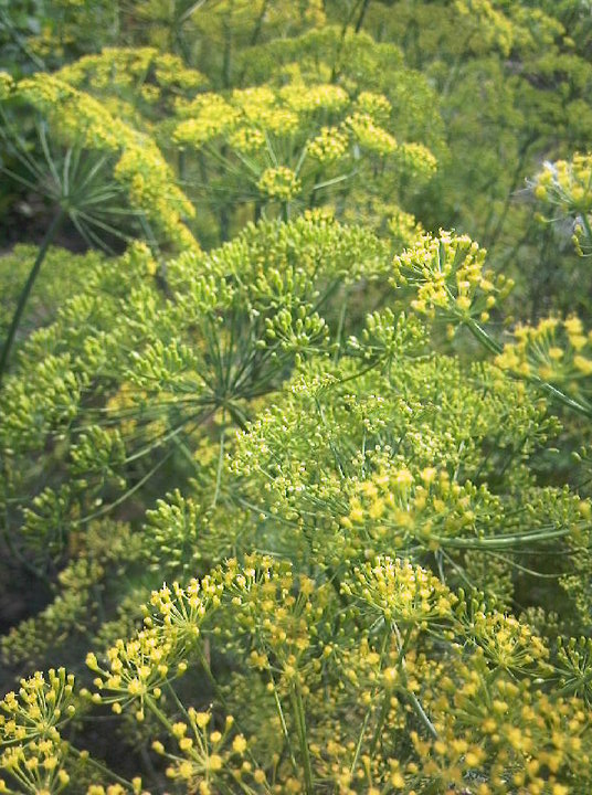 Dill (Anethum graveolens) flowers in Lónyaytelep, Tranyalvania.